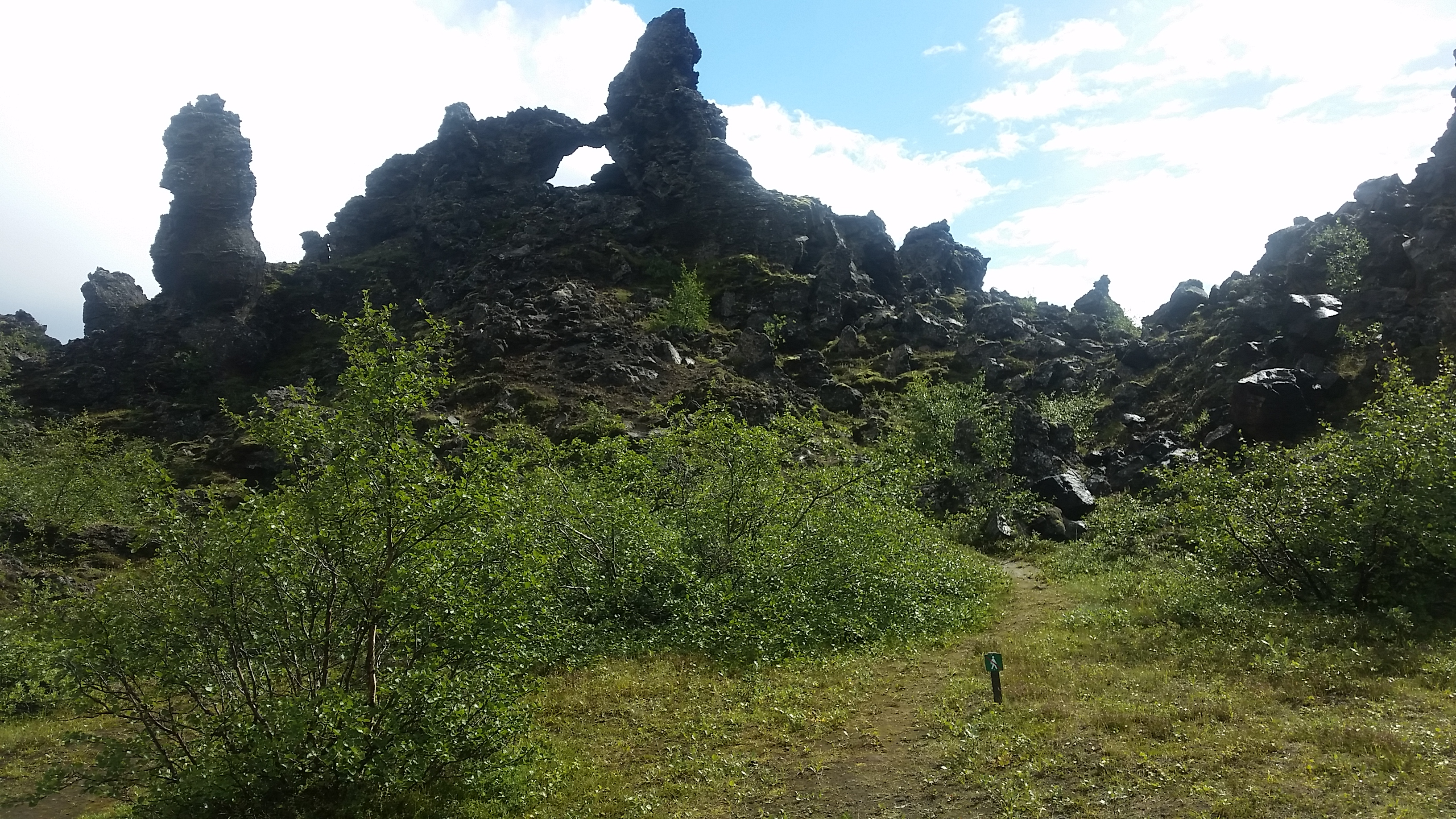 Dimmuborgir.